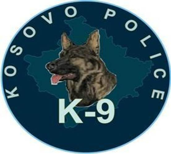 K-9 Kosovo Police